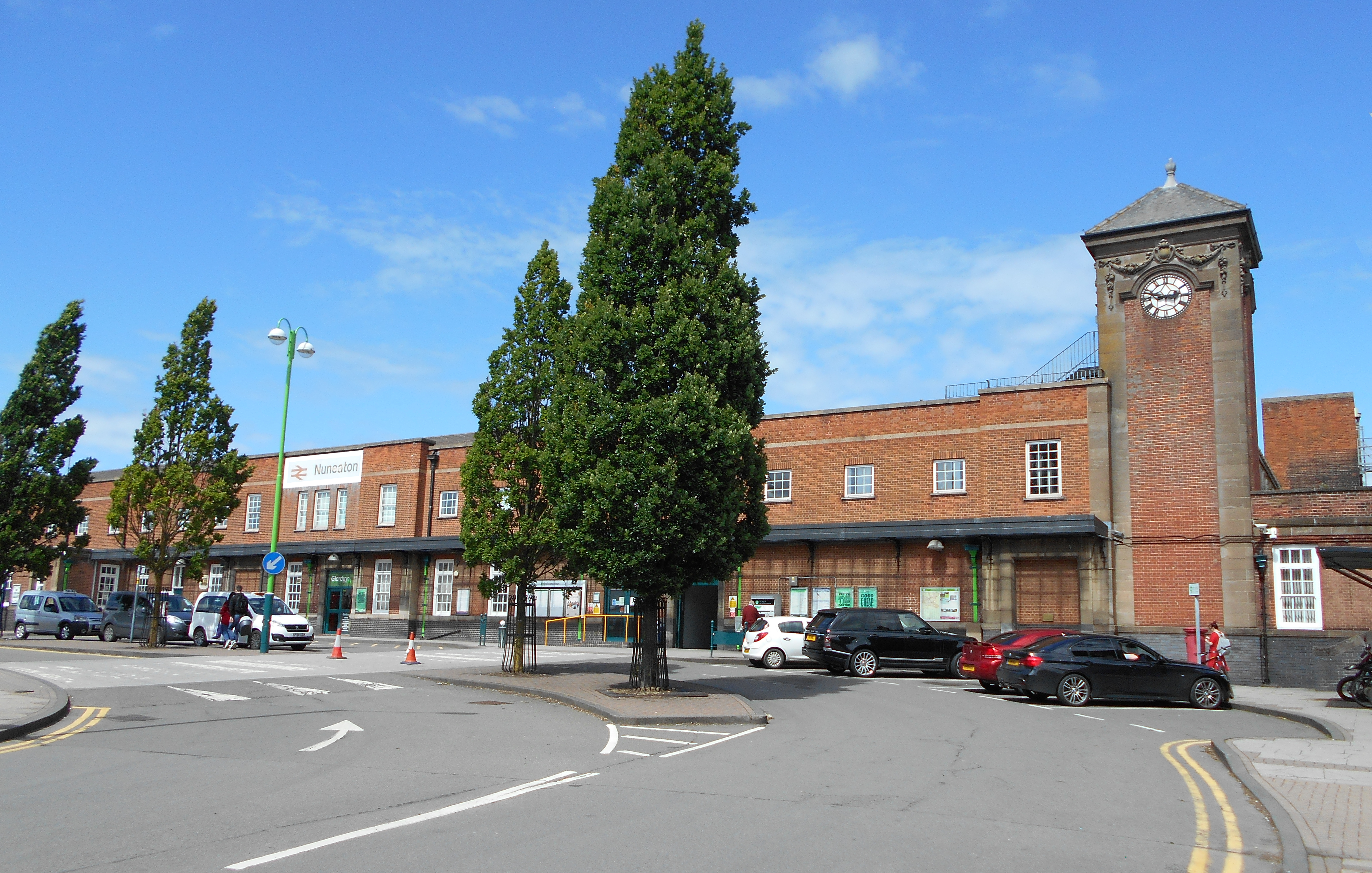 Nuneaton railway station exterior